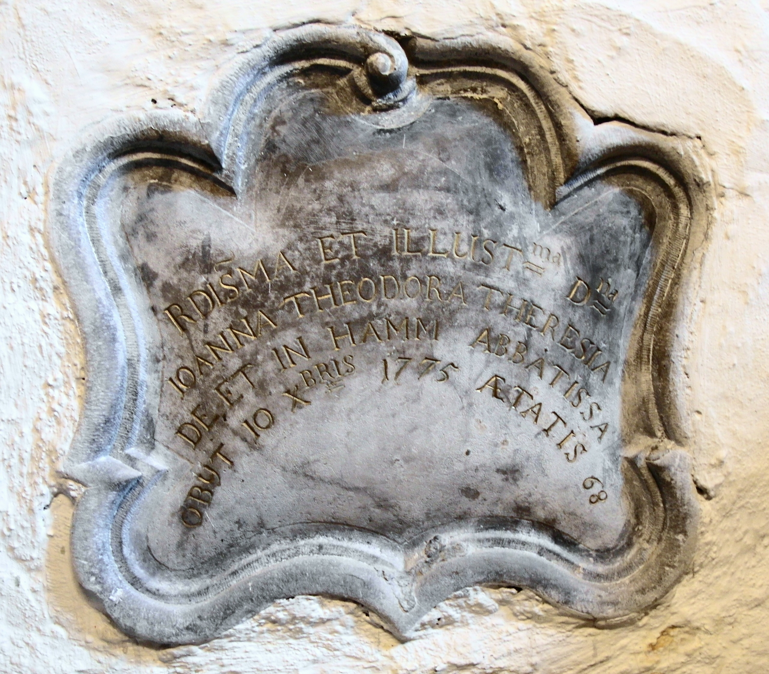 Gravestone of the abbess Ioanna Theodora Theresia de et in Hamm, † 1775; in the tomb chamber below the former abbey church St John Baptist in Aachen-Burtscheid, Germany